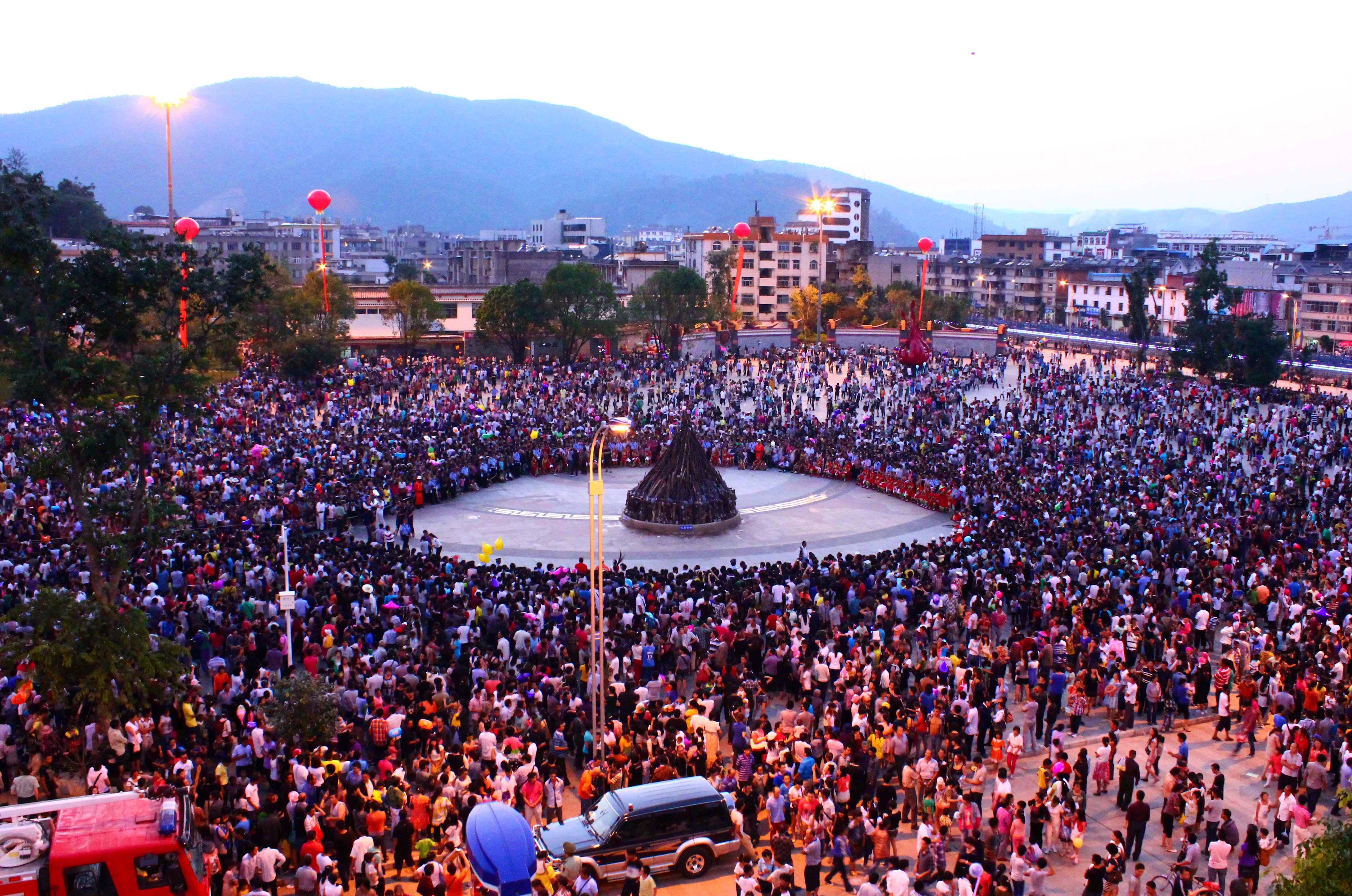 Torch Festival in Eshan County, Yunnan Province, China.